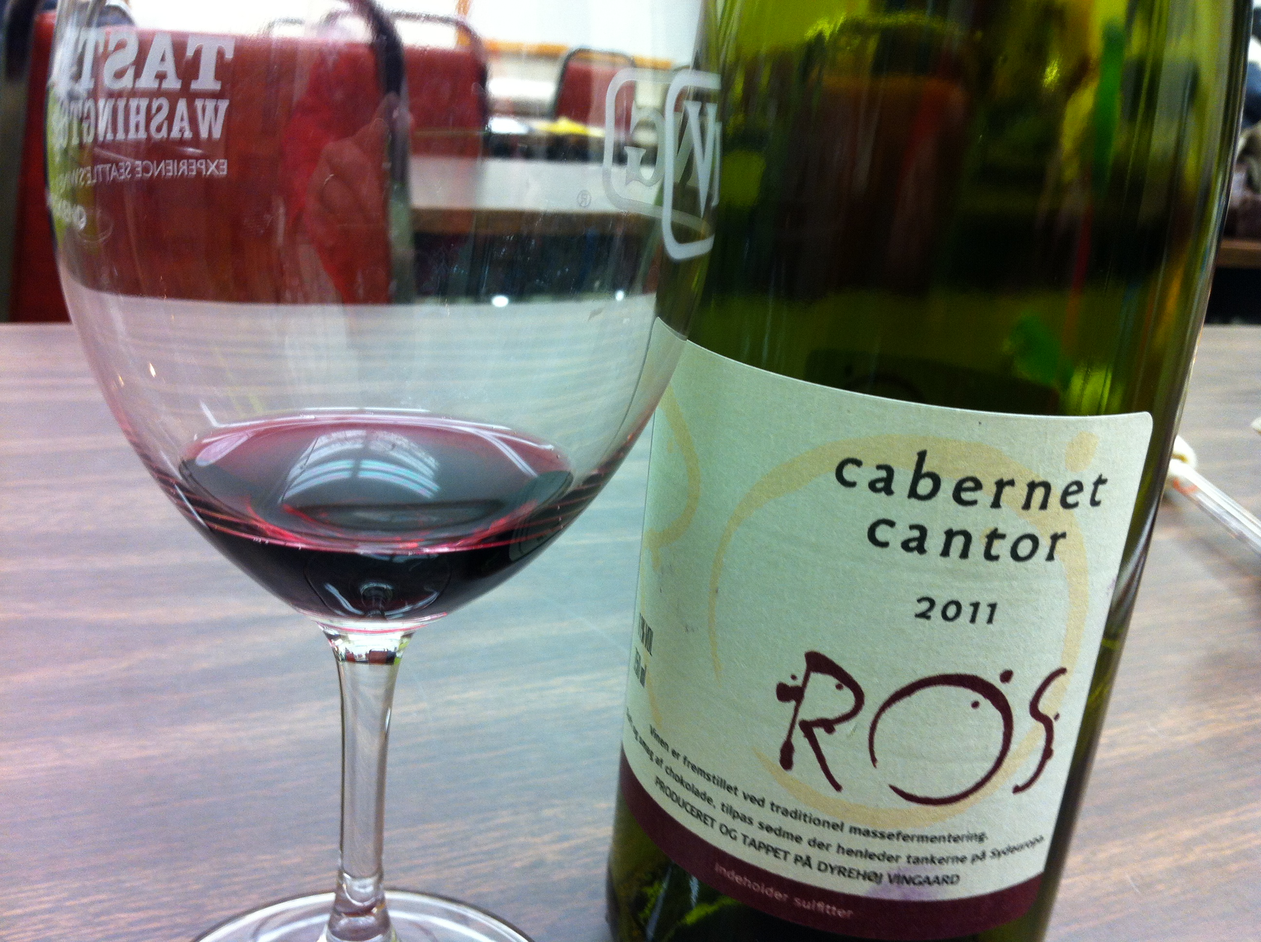 Wine made in Denmark from the Cabernet Cantor hybrid grape (a crossing of Seibel 70-53 and Merzling. Merzling itself is a Zarya severa x Muscat Ottonel crossing